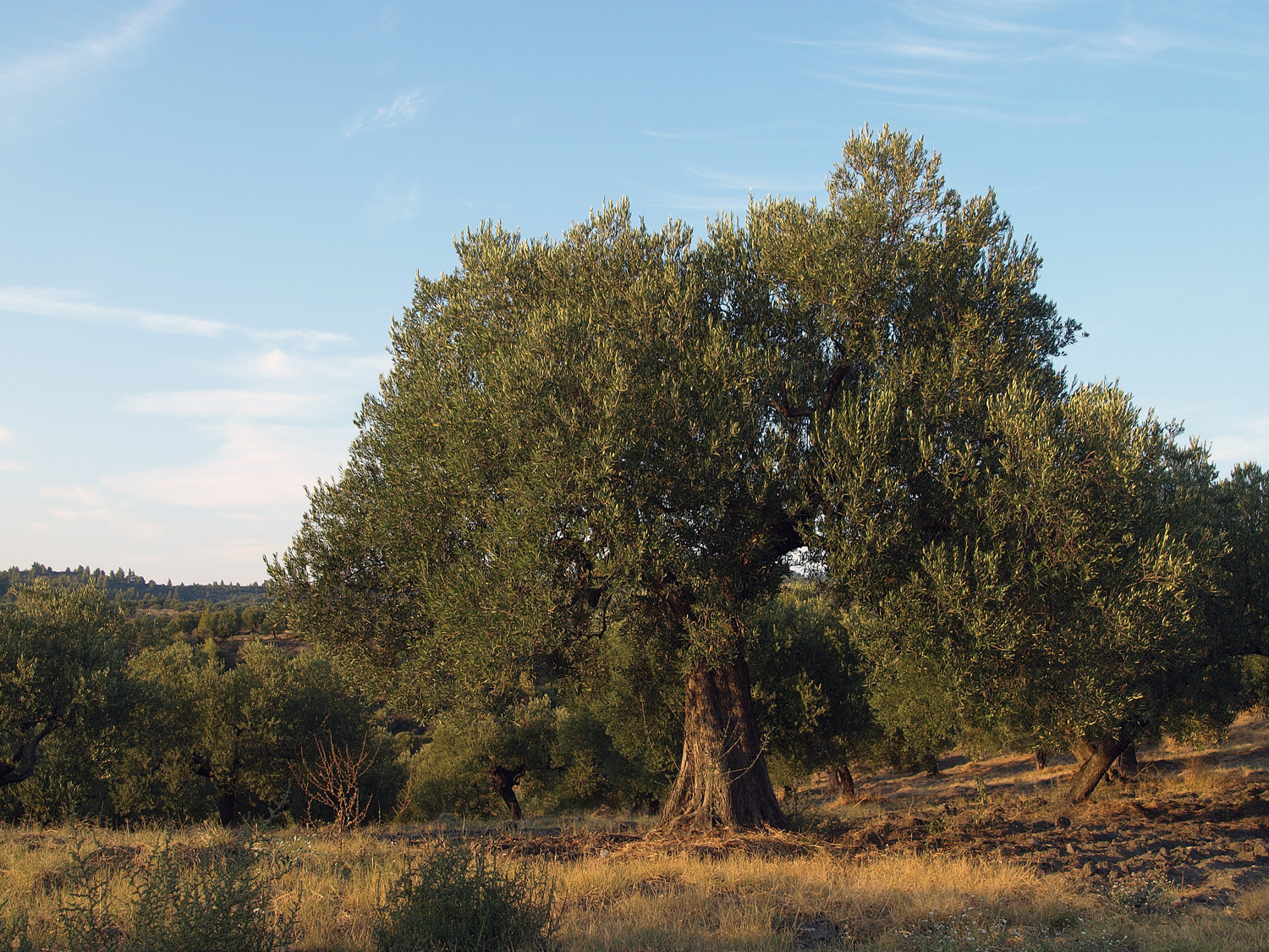 Olive Tree from Greece, Sithonia